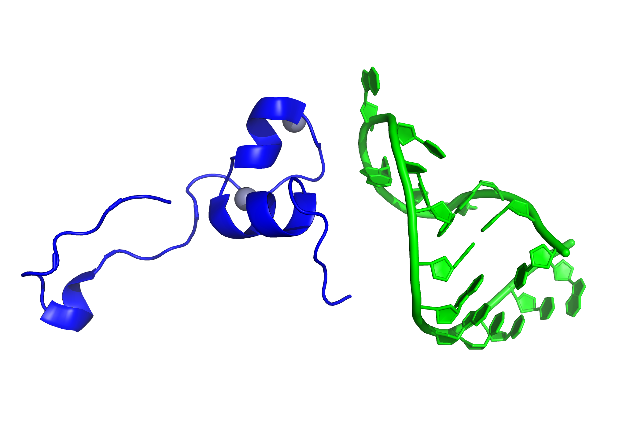 A representation of the crystal structure of the HIV Trans-Activator of Transcription protein, Tat bound to its cognate RNA. The crystal structure was determined by Schulze Gahmen, U., Hurley, J.H. and deposited to the PDB on 2018-04-06.